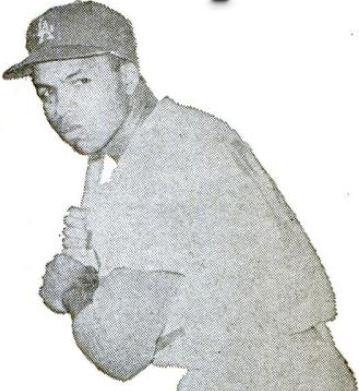 Los Angeles Dodgers left fielder Tommy Davis in a 1963 issue of Baseball Digest.